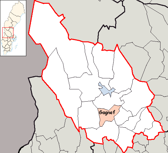 Gagnef Municipality in Dalarna County Designd by me, based on Image:Dalarna County.png